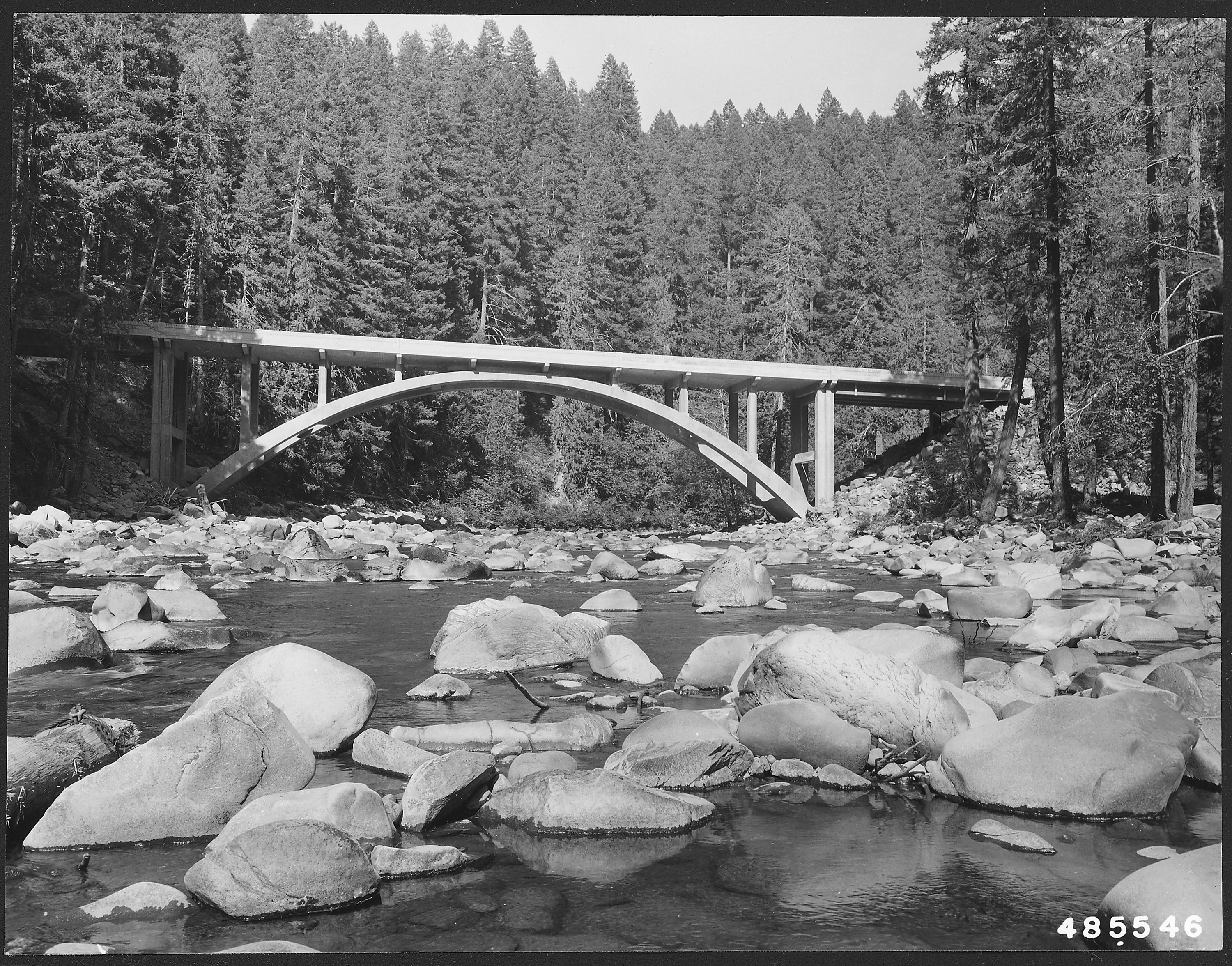 General notes: Close to its junction with the Clackamas River.